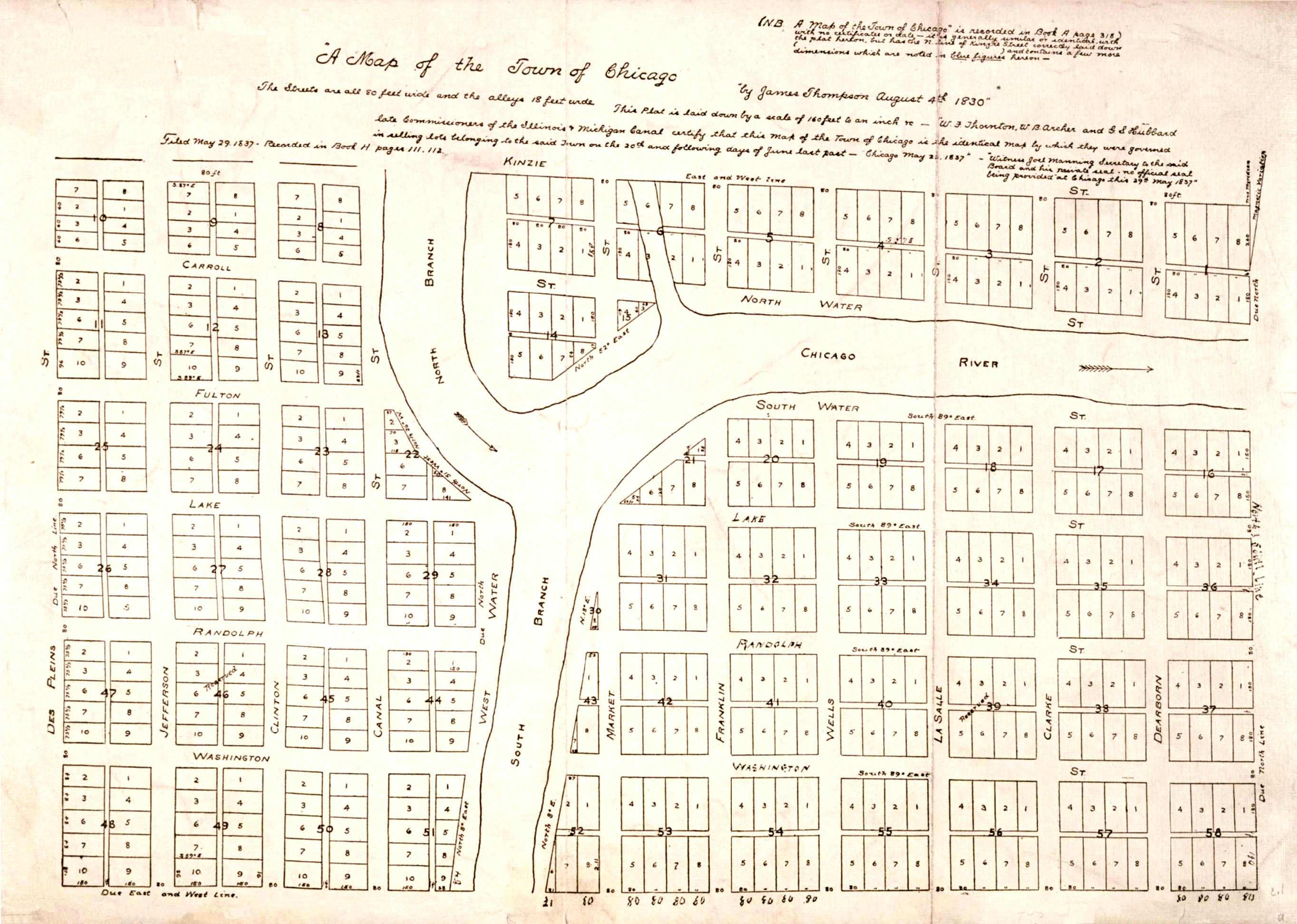 James Thompson's plat of Chicago, made on August 4, 1830. Made to the order of the Illinois and Michigan Canal Commissioners, this marked the first formal recognition of a place named "Chicago". According to the Chicago History Museum, this is Thompson's original plat; the statement of the Canal Commissioners indicates that they based land sales on it.